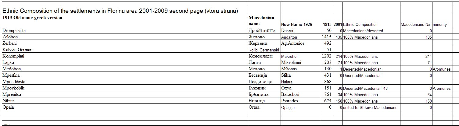 The whole region of todays perfecture Florina , vilages in the past and today, by their ethnic composition. The movement of people in asia minor catastrofy and colonisation of prosfigi in this region of Macedonia